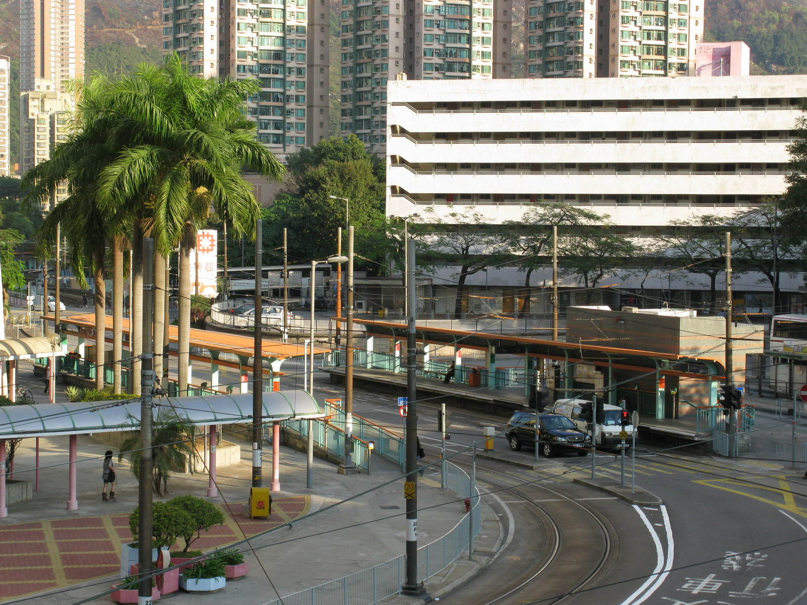 Tai Hing South Stop, Light Rail